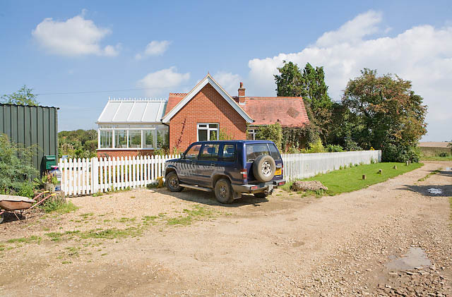 Private house named Watchingwell Station, 3 km from Calbourne, Isle of Wight, near England. Marked on the map as "The Old Halt" this bungalow is where there used to be Watchingwell Halt on the now dismantled Freshwater, Yarmouth and Newport Railway line. It is in the middle of nowhere and only served a few isolated houses. Contrary to the impression created by the white palings, the railway line actually ran left to right beyond this bungalow.